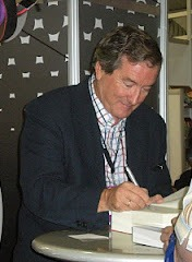 Juan José Benítez at a 2011 showcase of his ninth 'Caballo de Troya' book.